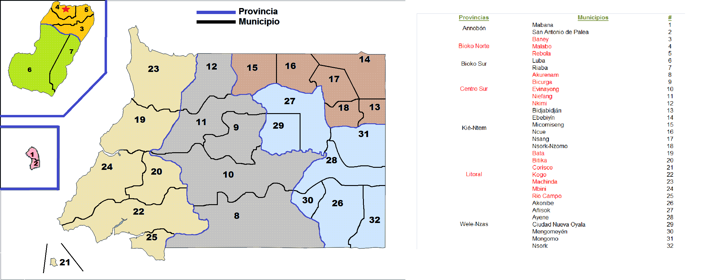 The 32 municipalities that belongs to the 7 provinces of the Republic of Equatorial Guinea.